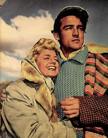 Shelley Winters e Vittorio Gassman